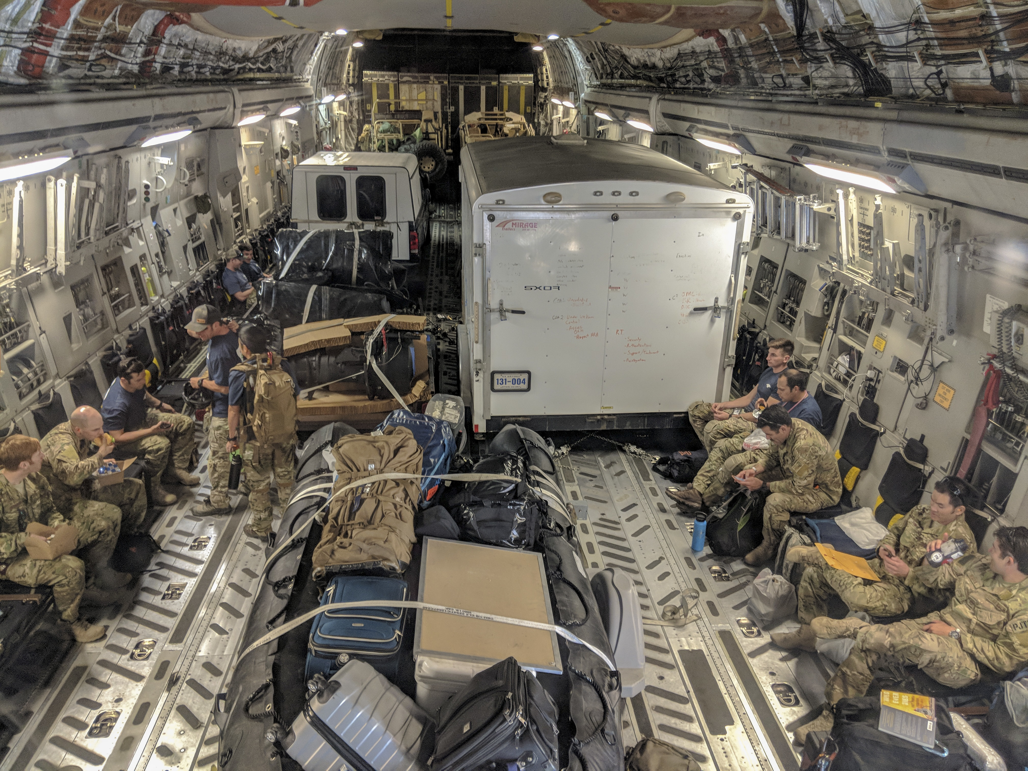 Pararescue personnel from the Alaska Air National Guard’s 212th Rescue Squadron, 176th Wing, and California ANG’s 131st Rescue Squadron, 129th Rescue Wing, settle into a AKANG’s 144th Airlift Squadron C-17 Globemaster III aircraft at Moffett Federal Airfield, Calif., Sept. 12, 2018. The Guardsmen complete with equipment, trailers and vehicles are in route to Dover Air Force Base, Del., in preparation for offering support to civil authorities as needed in response to hurricane relief operations. (U.S. Army National Guard photo by Staff Sgt. Balinda O’Neal Dresel)